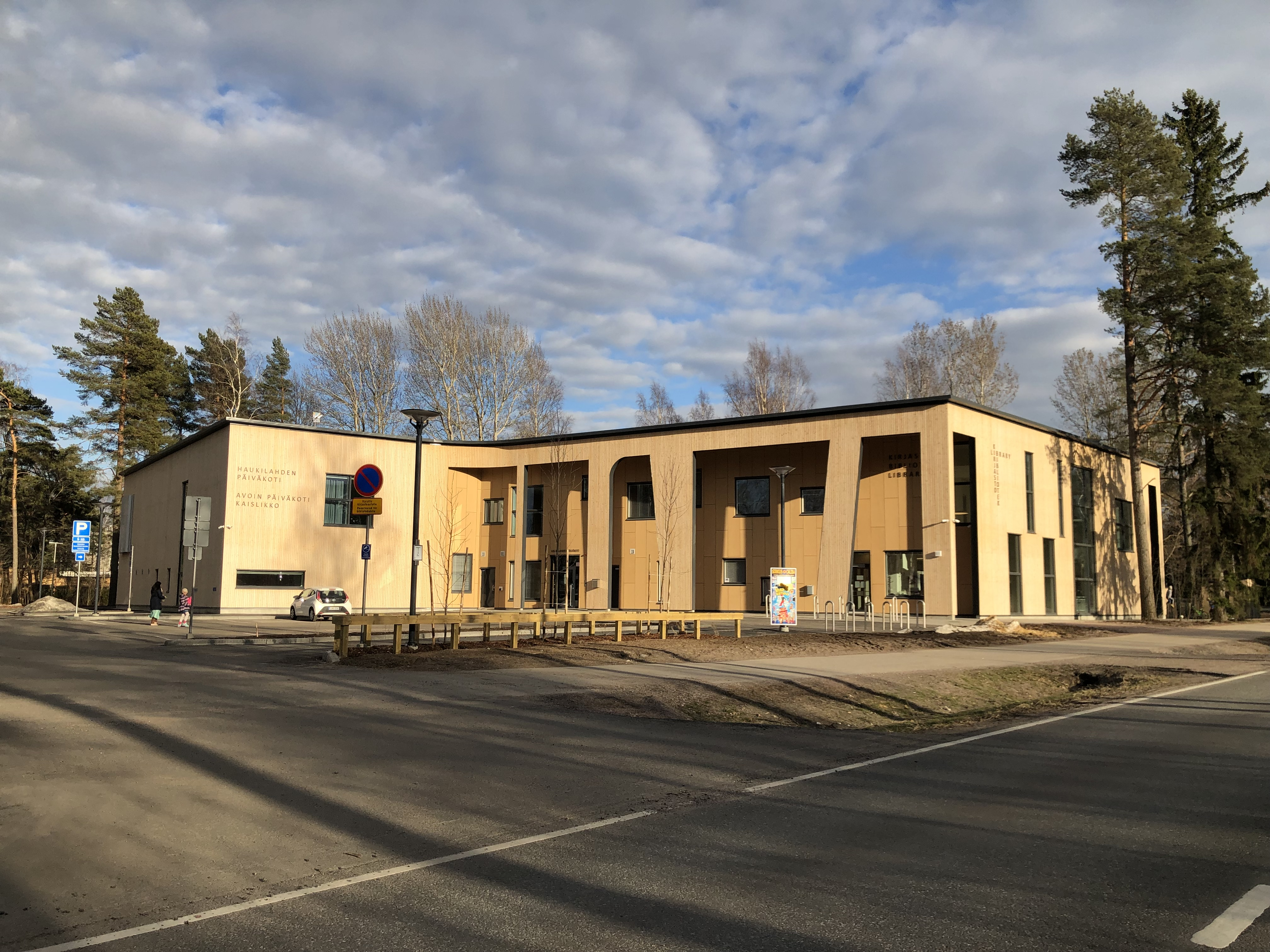 Haukilahti day care center in April 2019.